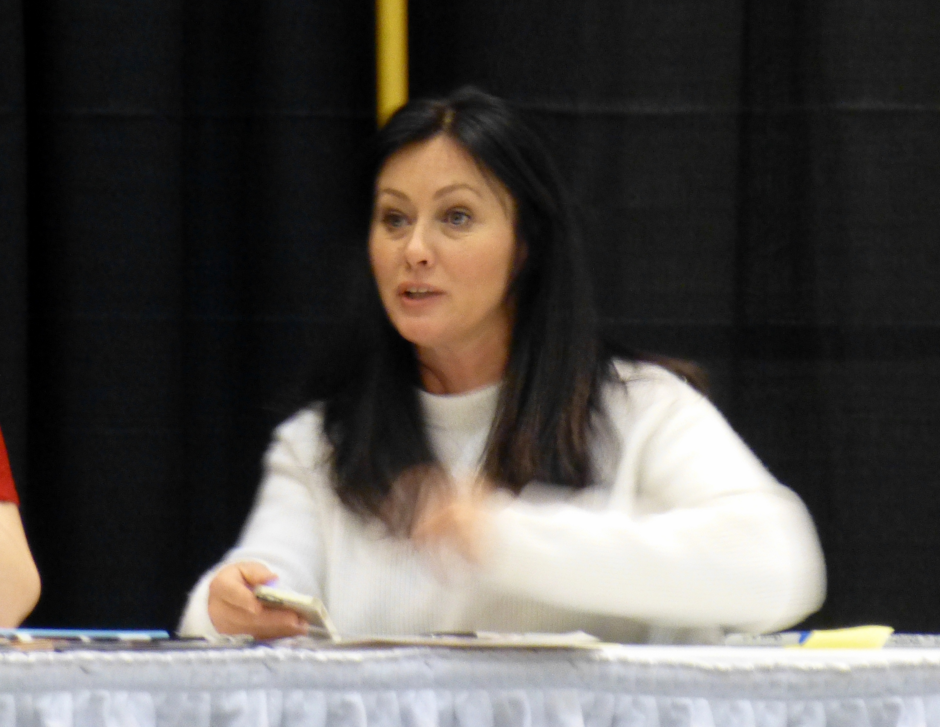 Doherty at the 2015 Toronto Comic-Con.